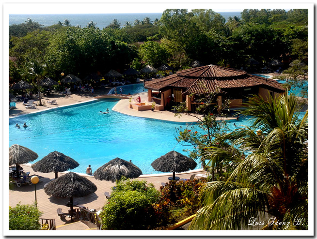 Barcelo Montelimar Beach, in Managua